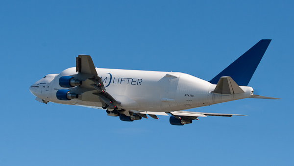 I took this photo while biking near Anchorage International Airport on a nice weekend morning in September 2011.What a cool looking plane!